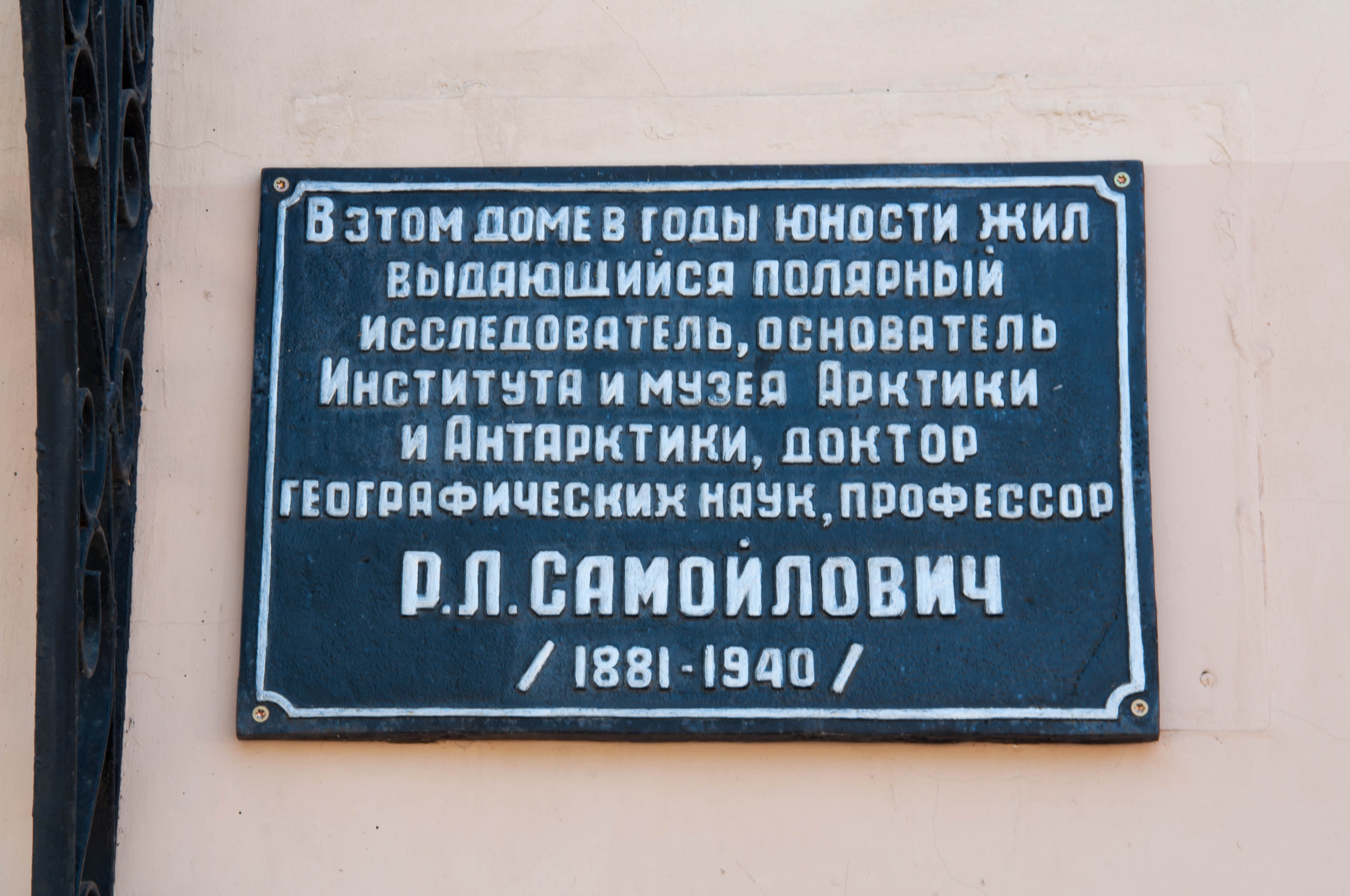 Apartment house of merchant Samoilovych (Rostov region, Azov, Leningradskaya street, 46) The text of the memorial plate: "in this house In the years of my youth lived the outstanding polar, the founder of the Institute and Museum of the Arctic and Antarctic, doctor of geographical Sciences, Professor R.Samoilovych(1881-1940)"